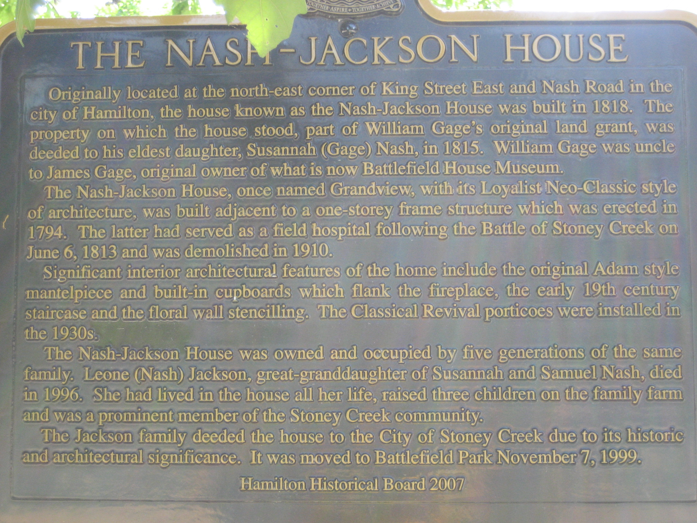 Nash-Jackson House, (plaque), Stoney Creek, Hamilton, Canada.